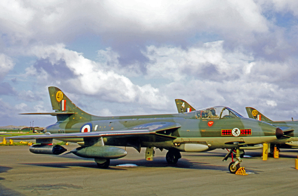 Hawker Hunter F.6 XG131 '41' of 234 Squadron 229 OCU at RAF Chivenor in 1969